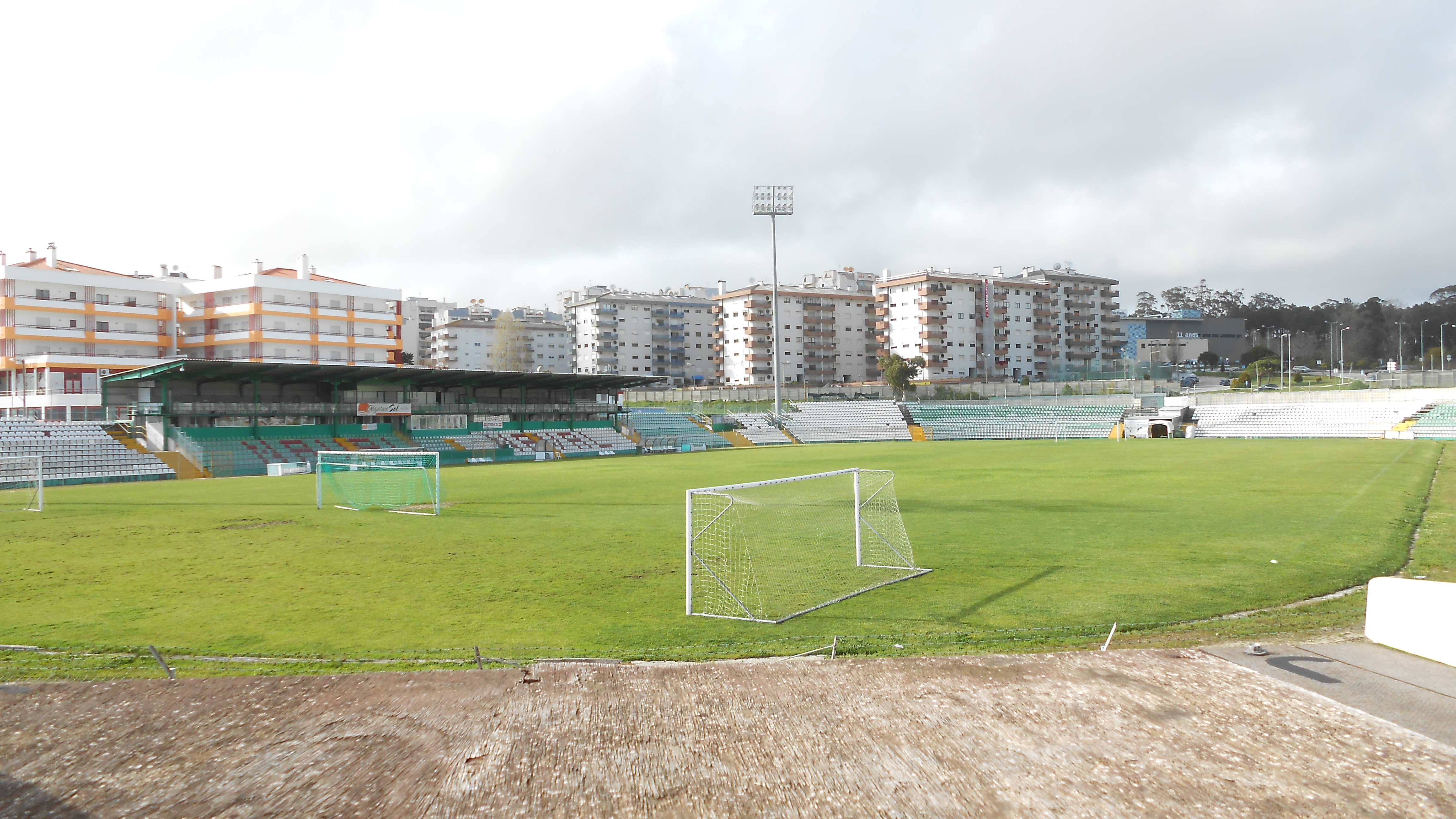 Estádio Municipal José Bento Pessoa, the Figueira da Foz football stadium, in april 2013